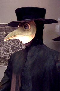 Special physician clothes for preventing pestilence (Germany, XVII century) at Jena